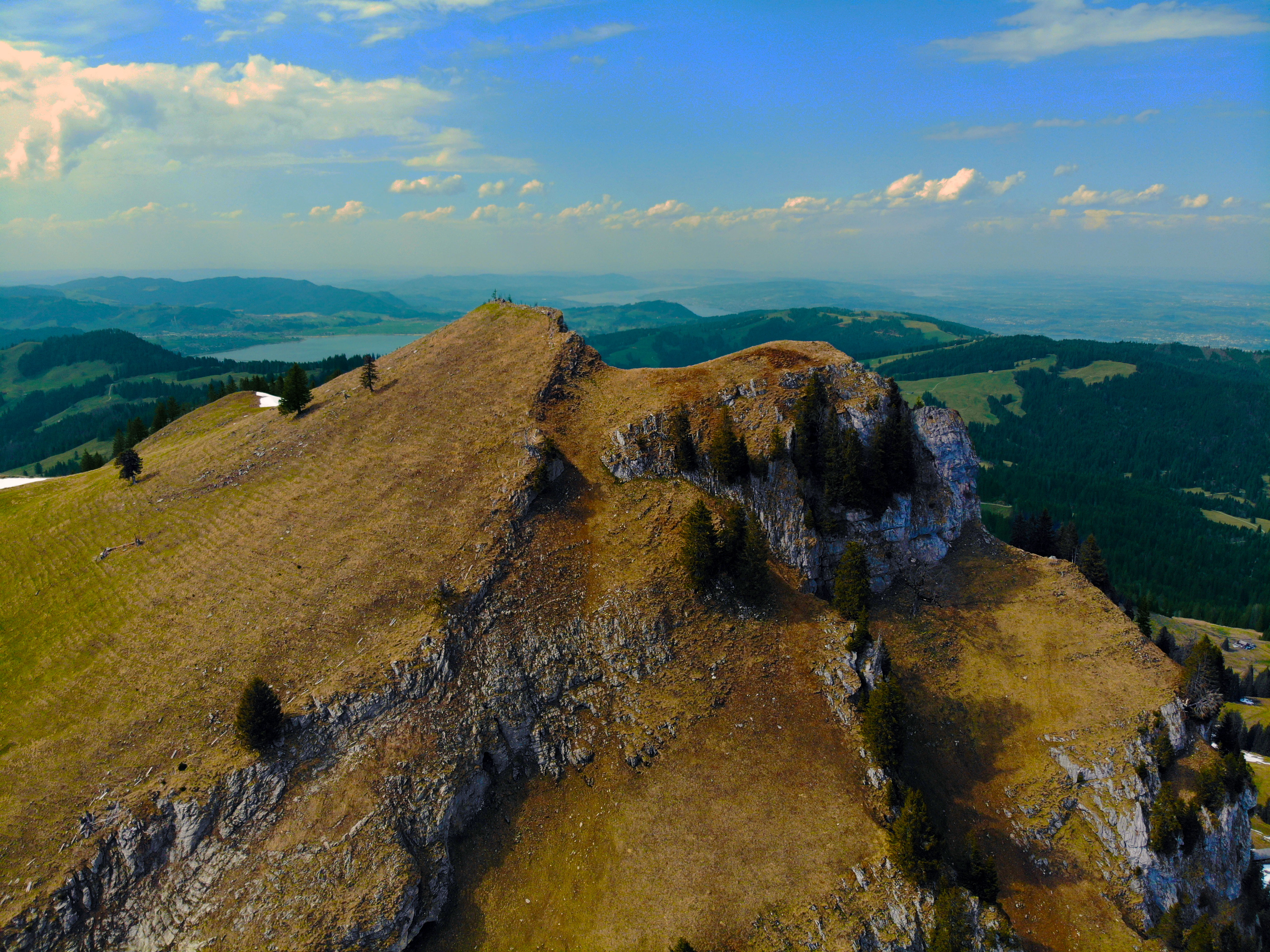 Drone photograph of Chli Aubrig, a mountain in Switzerland, taken at roughly equal elevation to the summit. April 12, 2020, facing northwest towards Zurich, with Sihlsee visible prominently just to the left of the summit and Lake Zurich less prominently just to the right of the summit (and much further away).